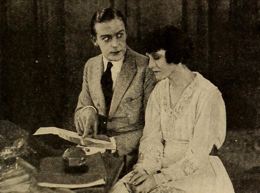 Still from the American film Too Many Millions (1918) with Wallace Reid and Ora Carew, on page 25 of the January 1919 Film Fun.